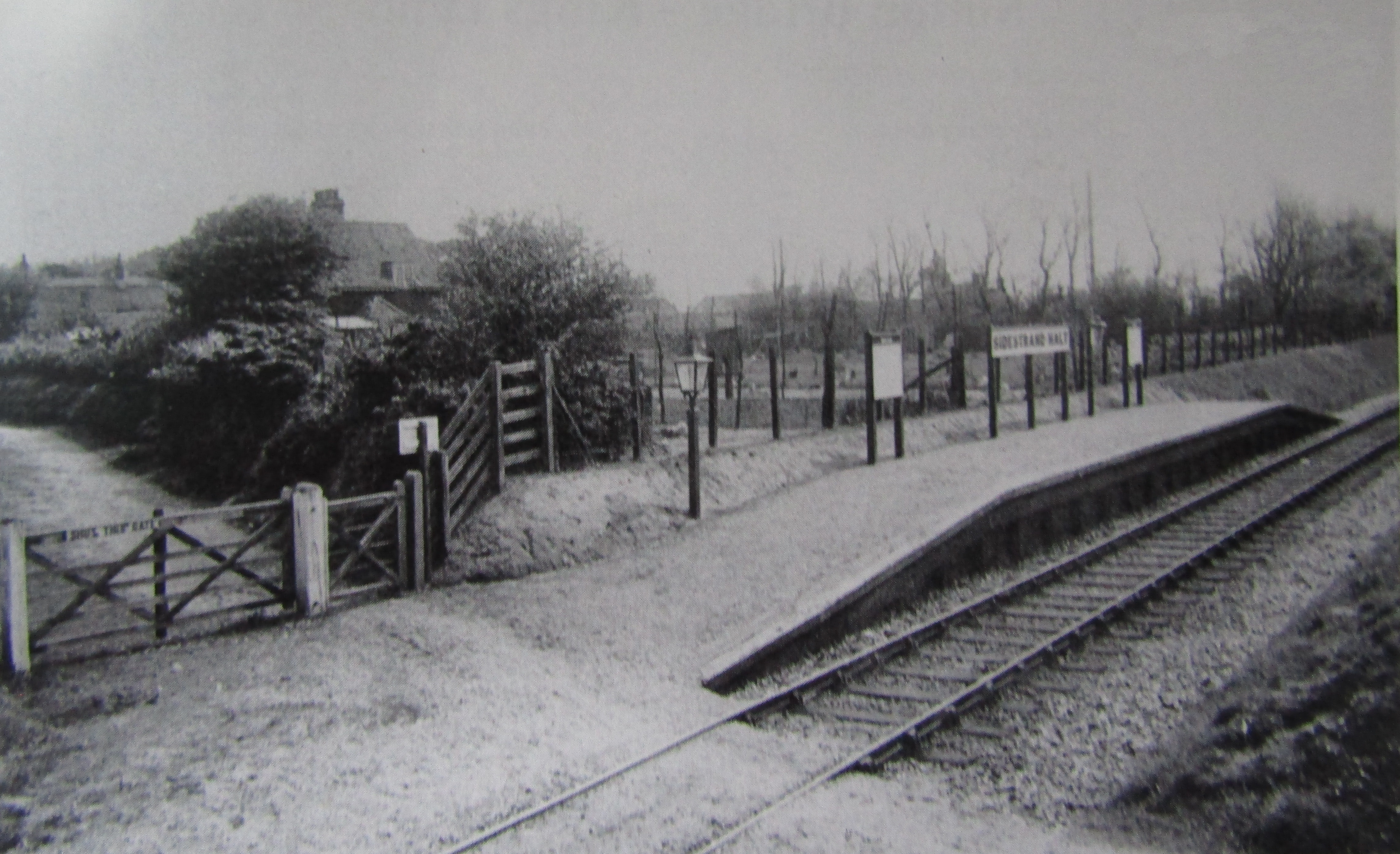 A 1906 photograph of Sidesrand Halt railway station on the Norfolk and Suffolk Joint Railway within the village of Sidestrand, Norfolk, United Kingdom.